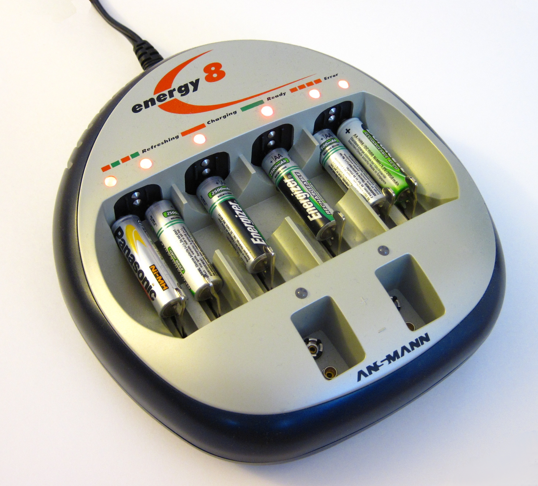 Ansmann Energy 8 Charger that supports automatic refresh/discharge function and capacity quick test. It has four AAA/AA/C/D and two 9V positions.